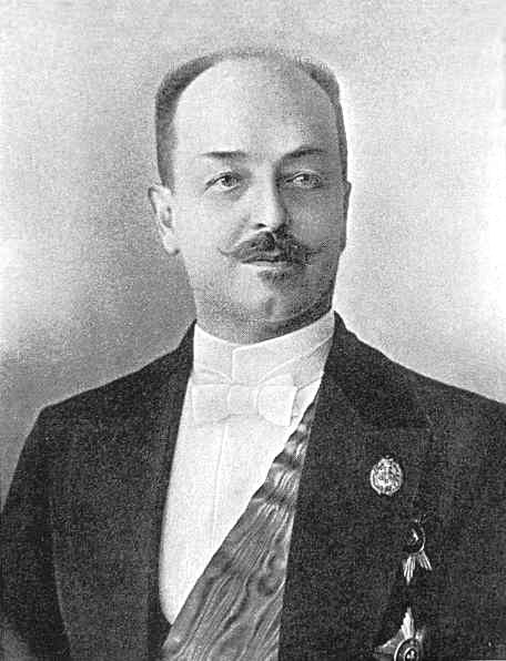 Lamsdorf Vladimir (ministr) 1900—1906